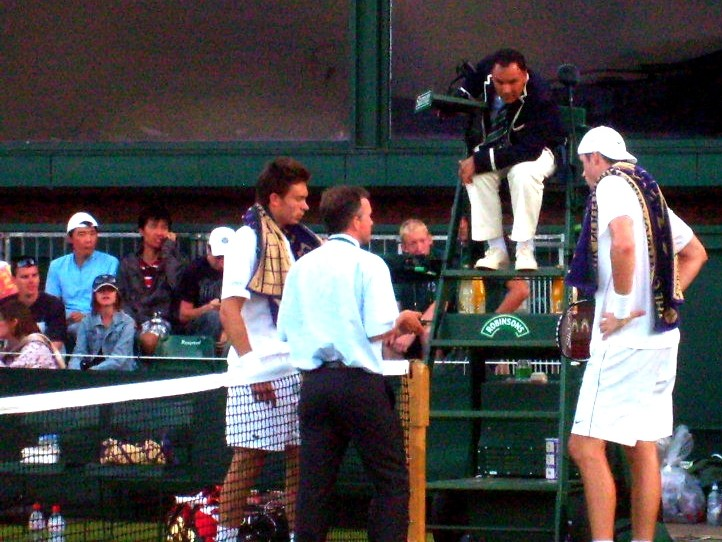 9.07pm. Because of the night coming, Isner and Mahut discuss with the referees about stopping again the game on the second day of their match in Wimbledon 2010.